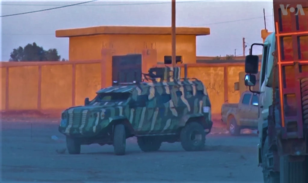 A Guardian Armored Personnel Carrier of the SDF during the Raqqa offensive (2016–17).